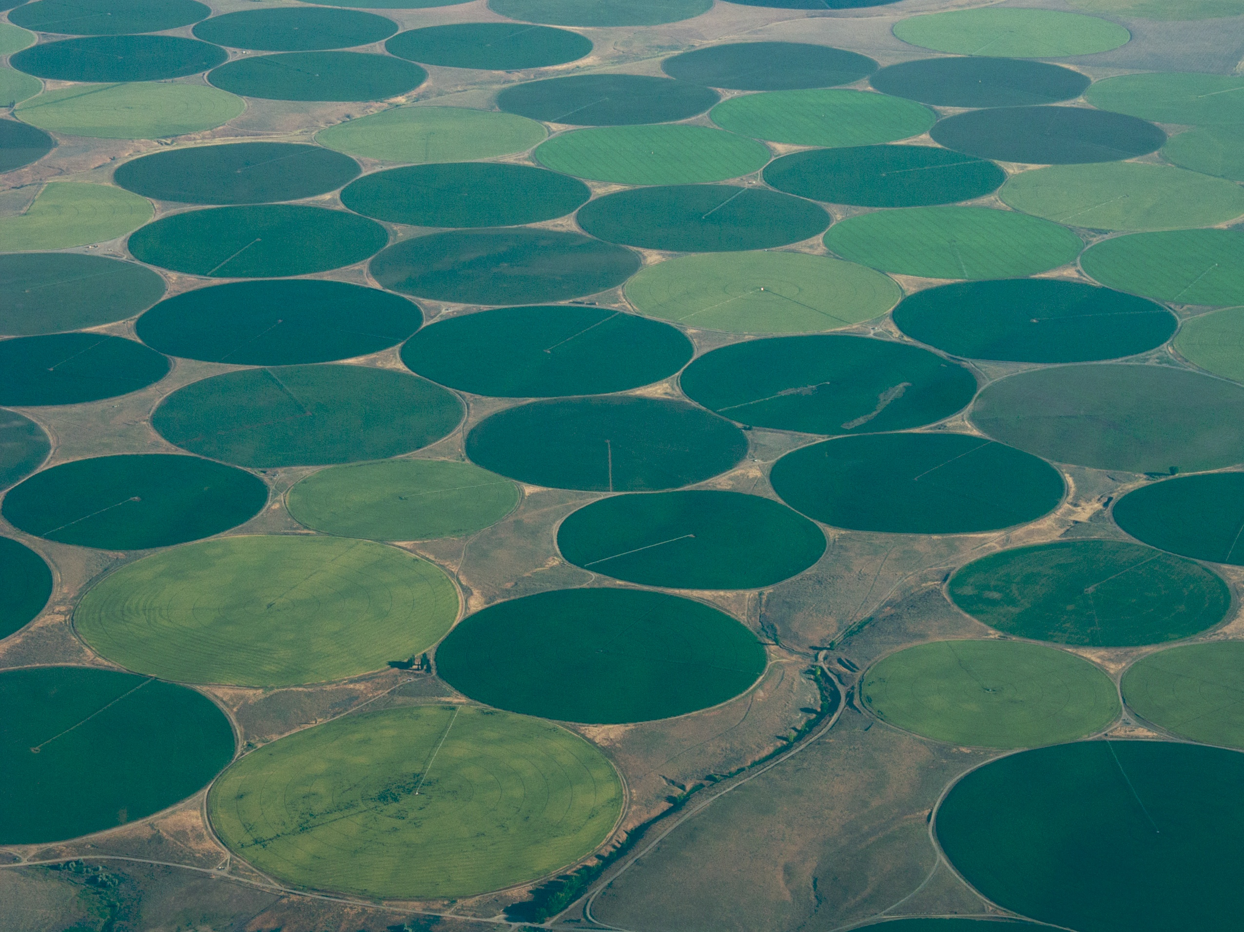 Crop circles along the Columbia, Washington, USA